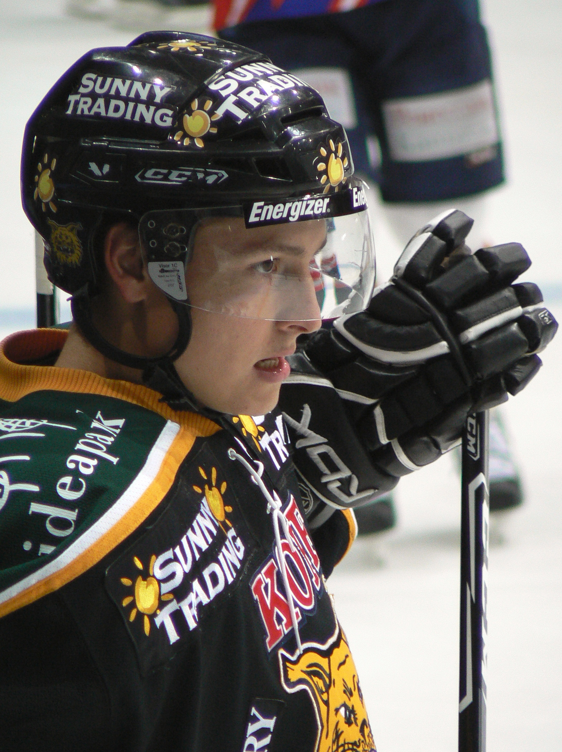 Finnish ice hockey forward Antti Roppo of Ilves Tampere at the 2008 Tampere Cup.